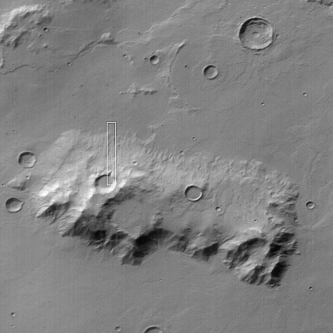 Ausonia Mensa, as seen my MGS. Location is 262.96 W and 29.86 S. Image is number S22-00012